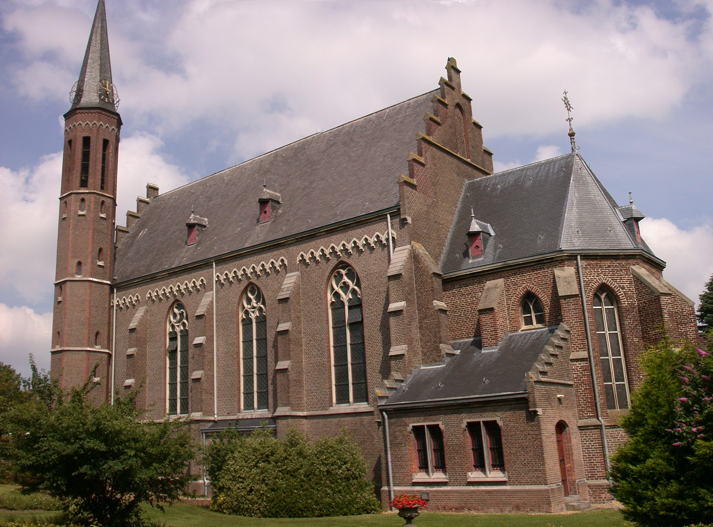 Church of St. John the Baptist in Merselo, Limburg province, The Netherlands